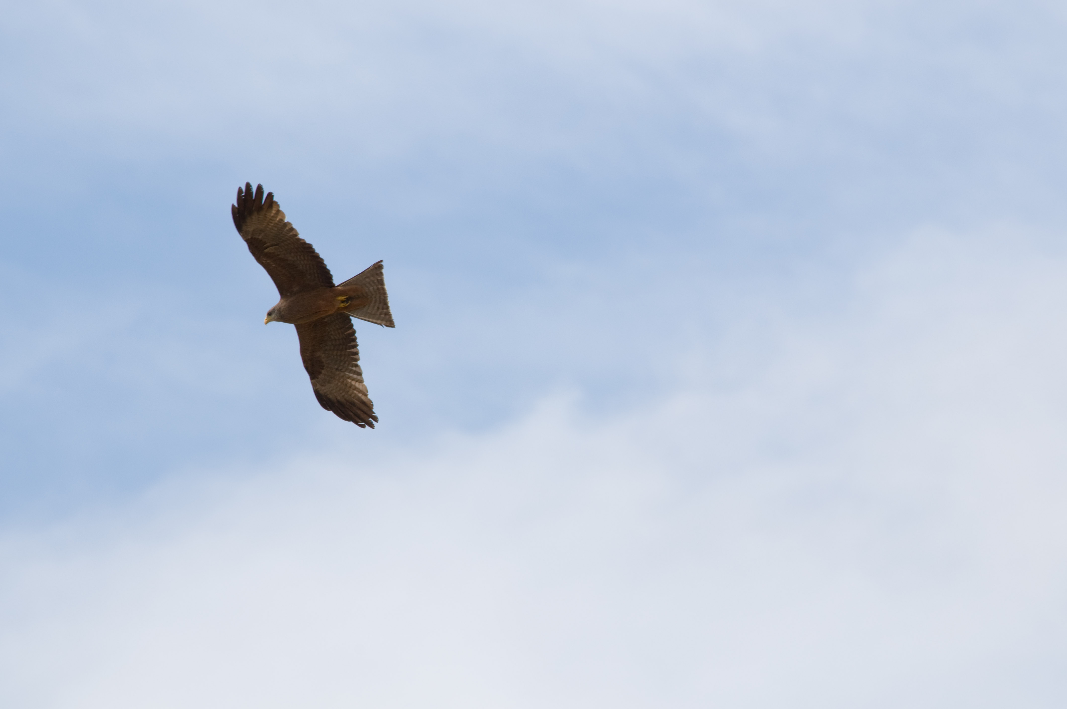 Yellow-billed Kite (Milvus aegyptius) Dysmorodrepanis 19:37, 28 May 2008 (UTC)